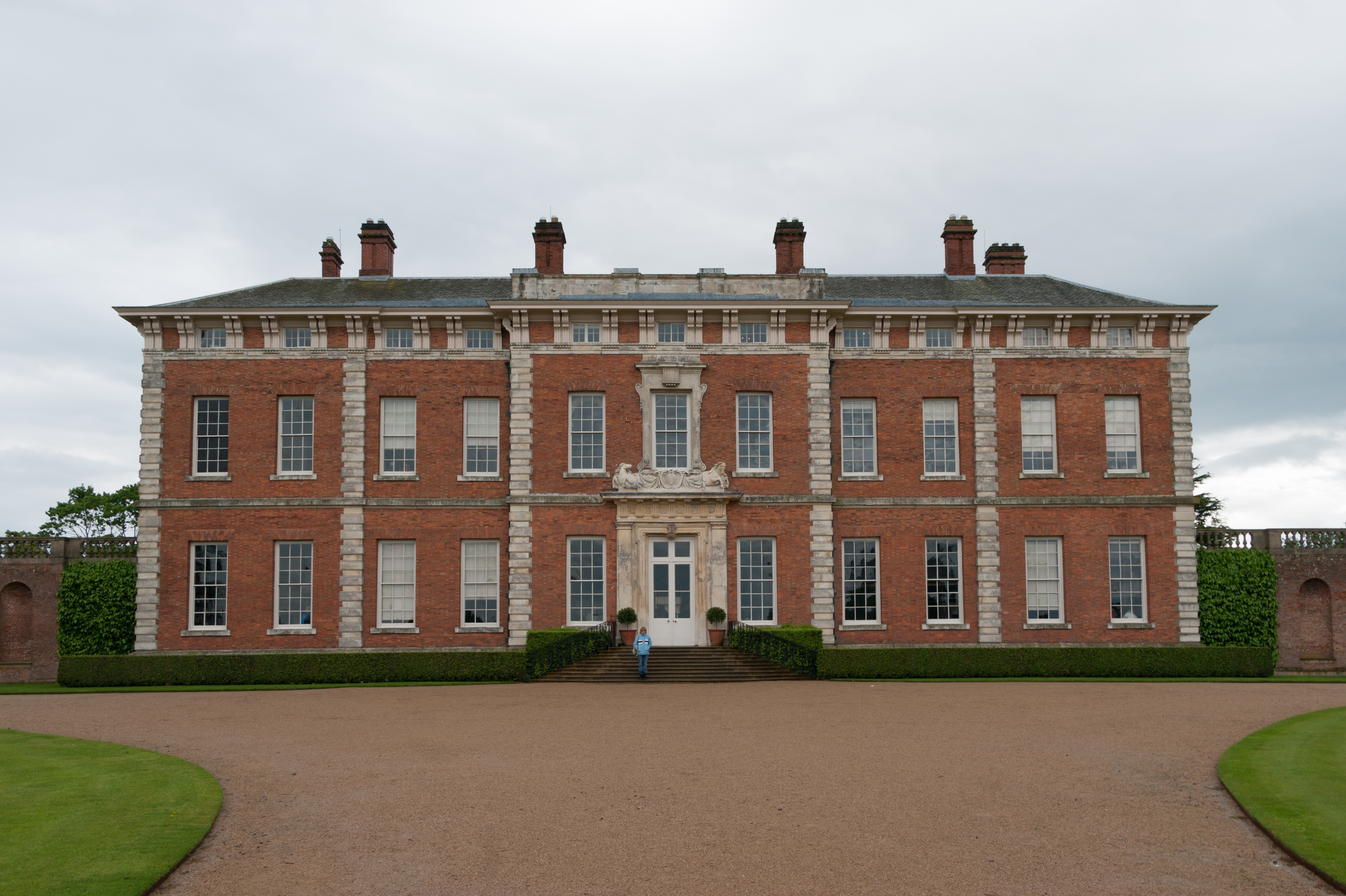 Most of the portraits in the gallery inside are ghastly, though